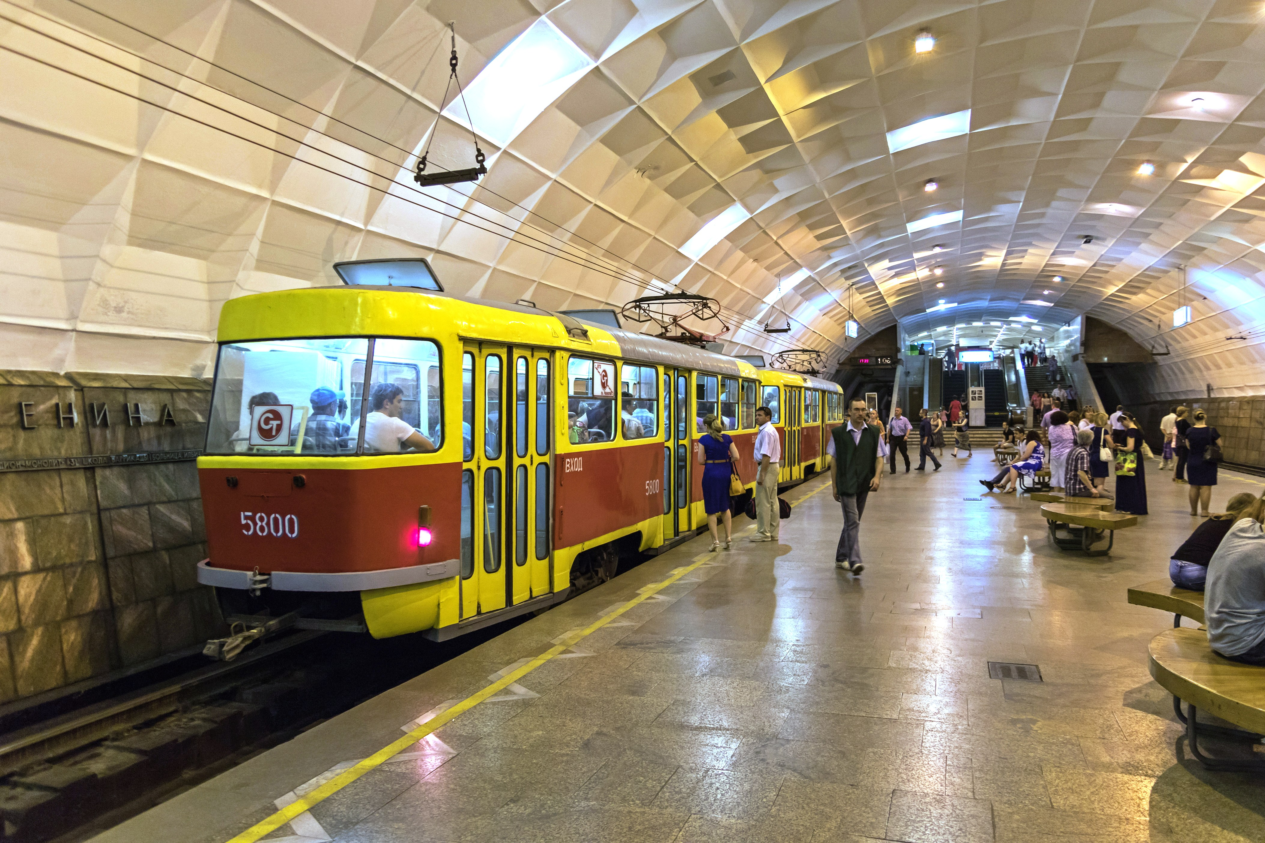 Ploshchad Lenina metrotram station in Volgograd, Russia